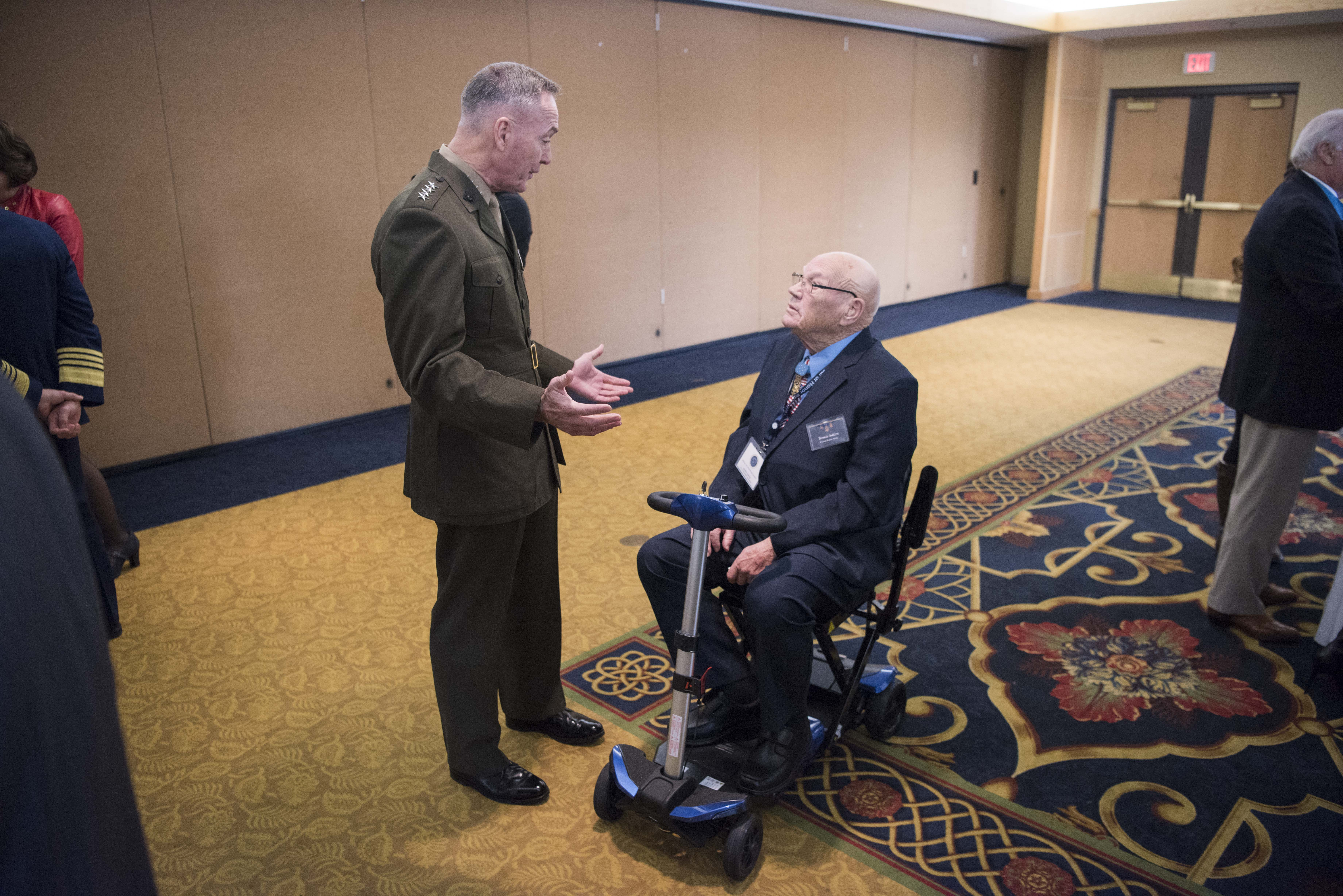 Marine Gen. Joseph F. Dunford Jr., chairman of the Joint Chiefs of Staff, hosts a luncheon for the Congressional Medal of Honor Society in Washington D.C., Jan. 19, 2017. The Congressional Medal of Honor Society is made up Medal of Honor recipients, and they are honored guests at every inauguration. They will sit on the dais on the steps of the Capitol tomorrow as President-elect Donald J. Trump takes the oath of office. (DoD Photo by Navy Petty Officer 2nd Class Dominique A. Pineiro/Released)